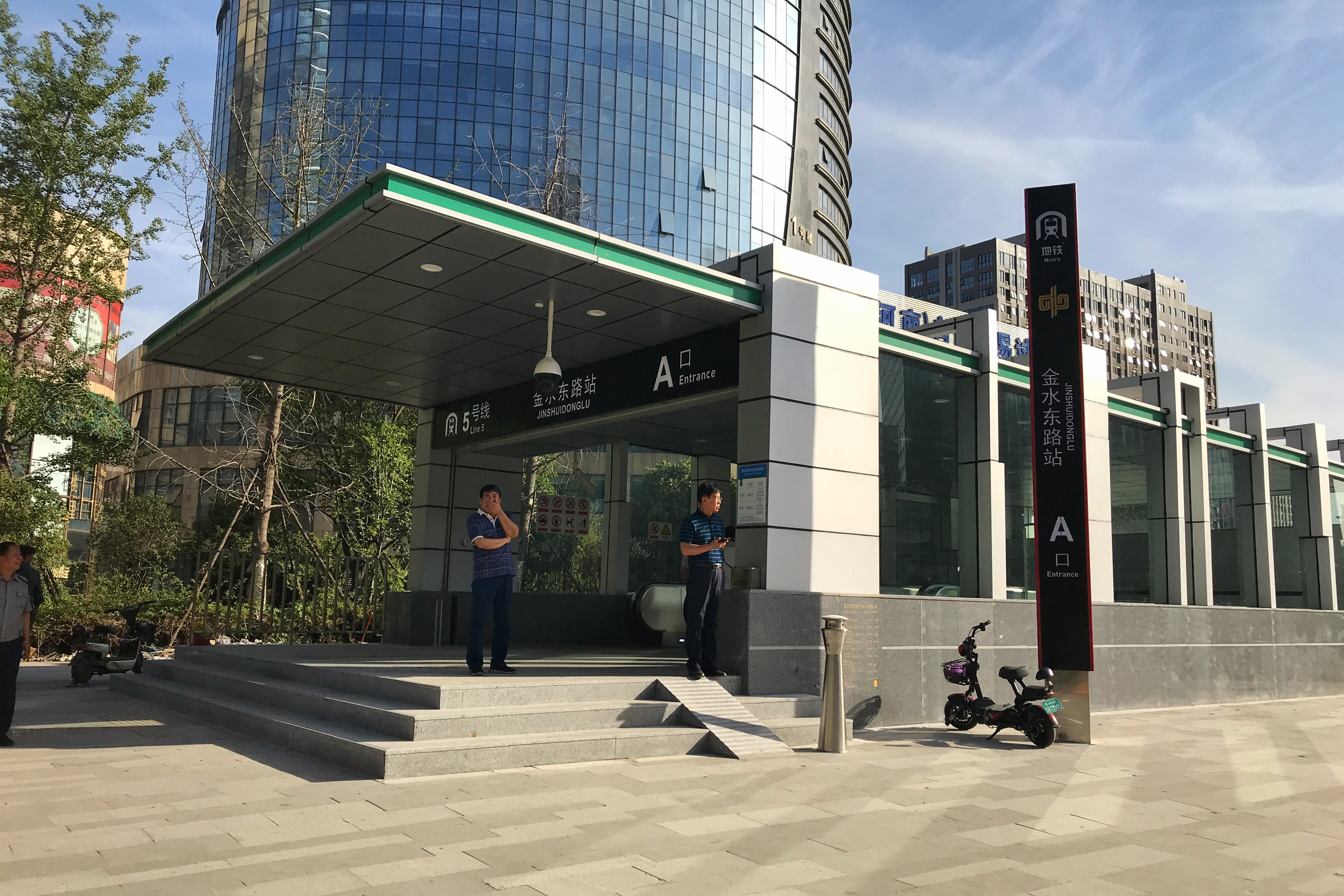 Entrance A of Jinshuidonglu Station